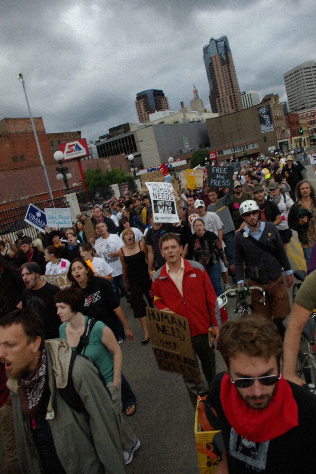 Poor People's Economic Human Rights Campaign march at the w:2008 Republican National Convention in Saint Paul, Minnesota. Photo has been rotated.